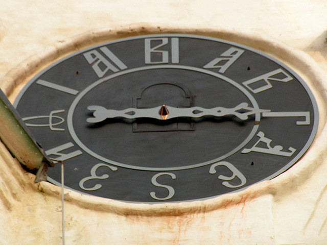 Saint Euthymius monastery in Suzdal